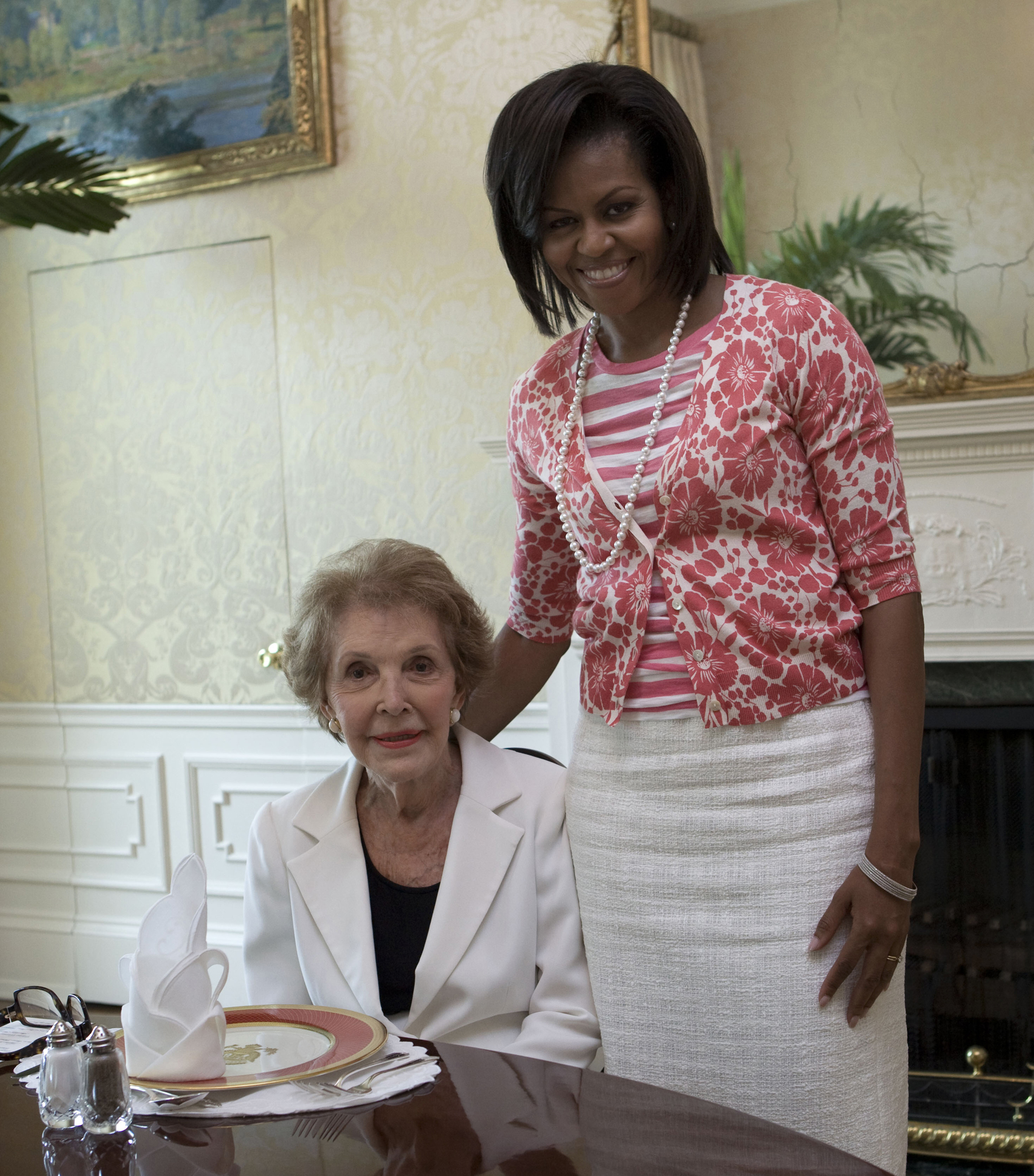 First Lady Michelle Obama visits with Former First Lady Nancy Reagan at the White House on June 3, 2009.